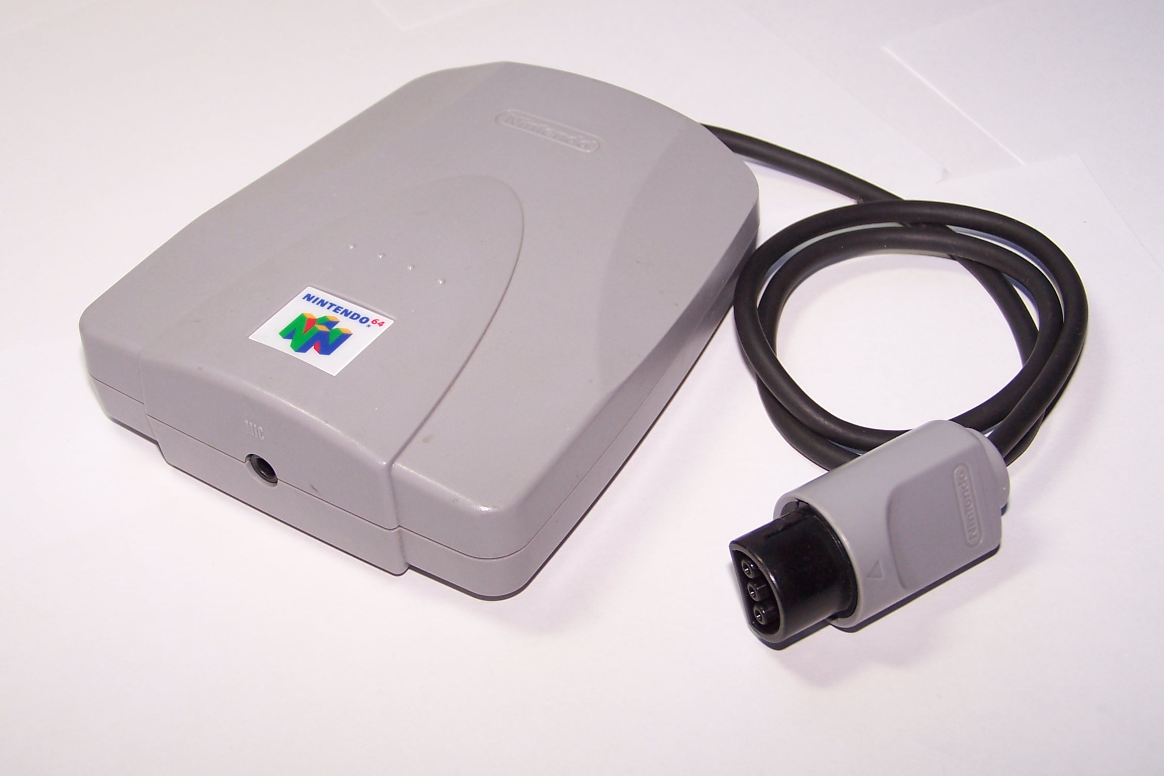 A Nintendo 64 VRU (Voice Recognition Unit)